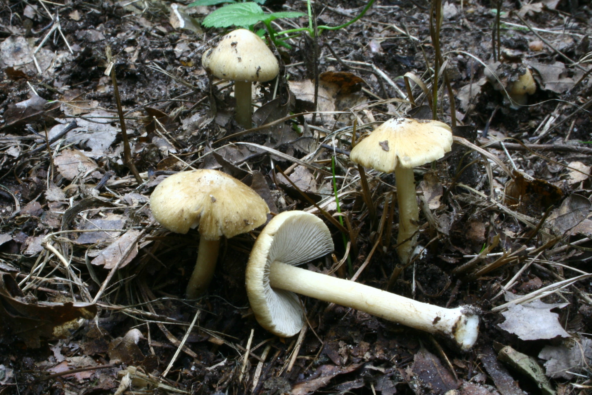 Inocybe cookei in the Forêt de Sénart near Paris, France.